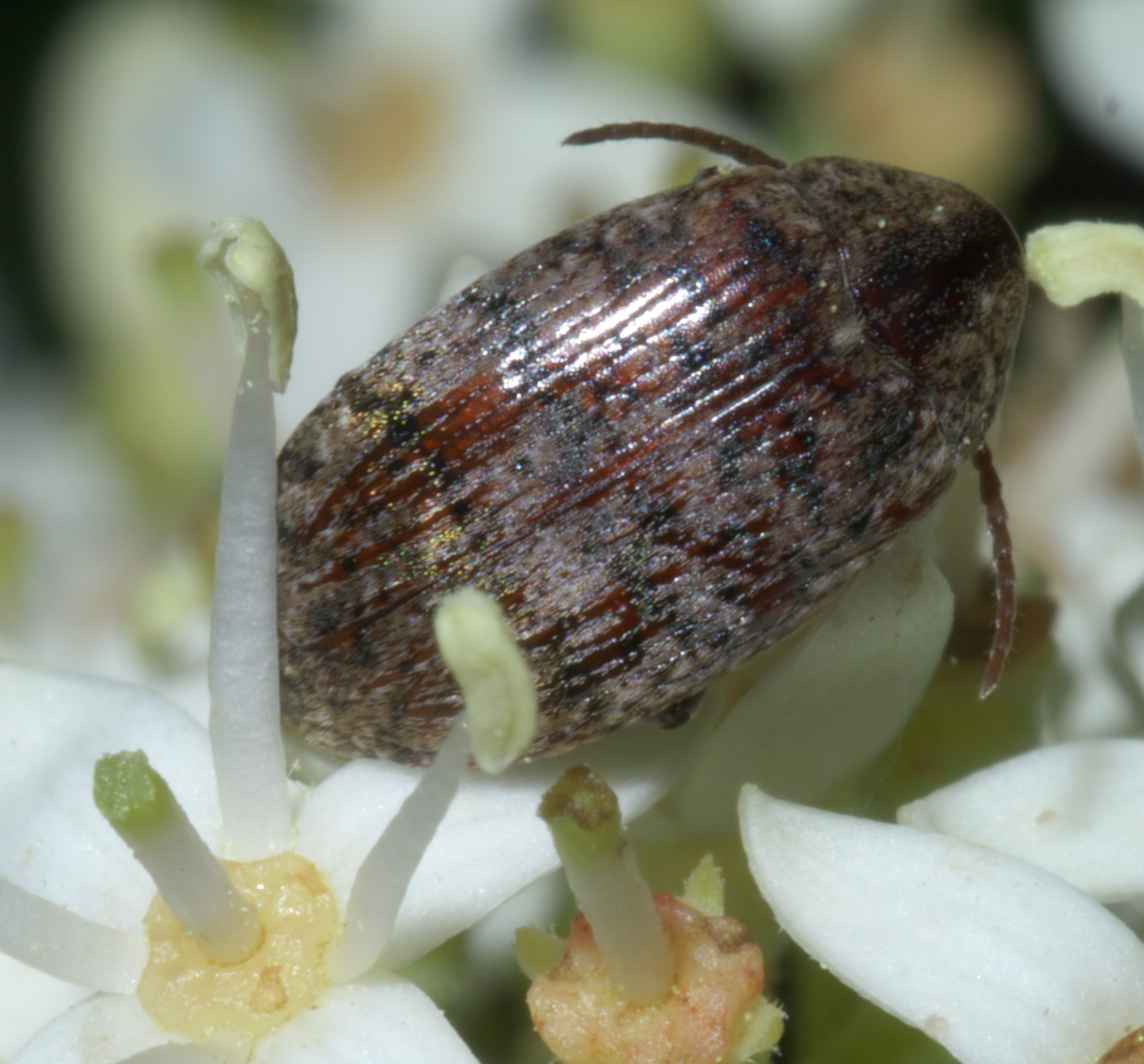 Amblycerus robiniae, Subfamily: Pea and Bean Weevils, Size: 6.8 mm, ID Confidence: 98